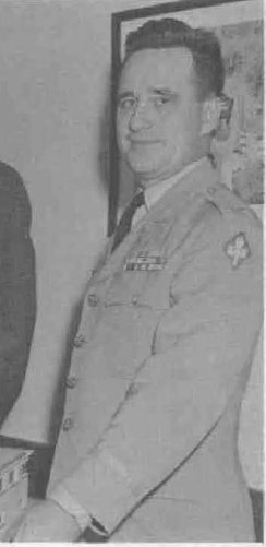 Cropped to show Cowan only. Original caption: "Col Robert B. Burlin, Director of the Army Nudear Power Program, presents model of Army's first nuclear pOwer plant, the SM-l, to the Smithsoniau Institution. Accepting is Dr. P. W. Bishop, center, of the Smithsonian' Divi ion of ,Ianufacturers and Heavy Industries and Dr. Clyde L. Cowan; professor of physics at Catholic University and Adviser to the Museum."